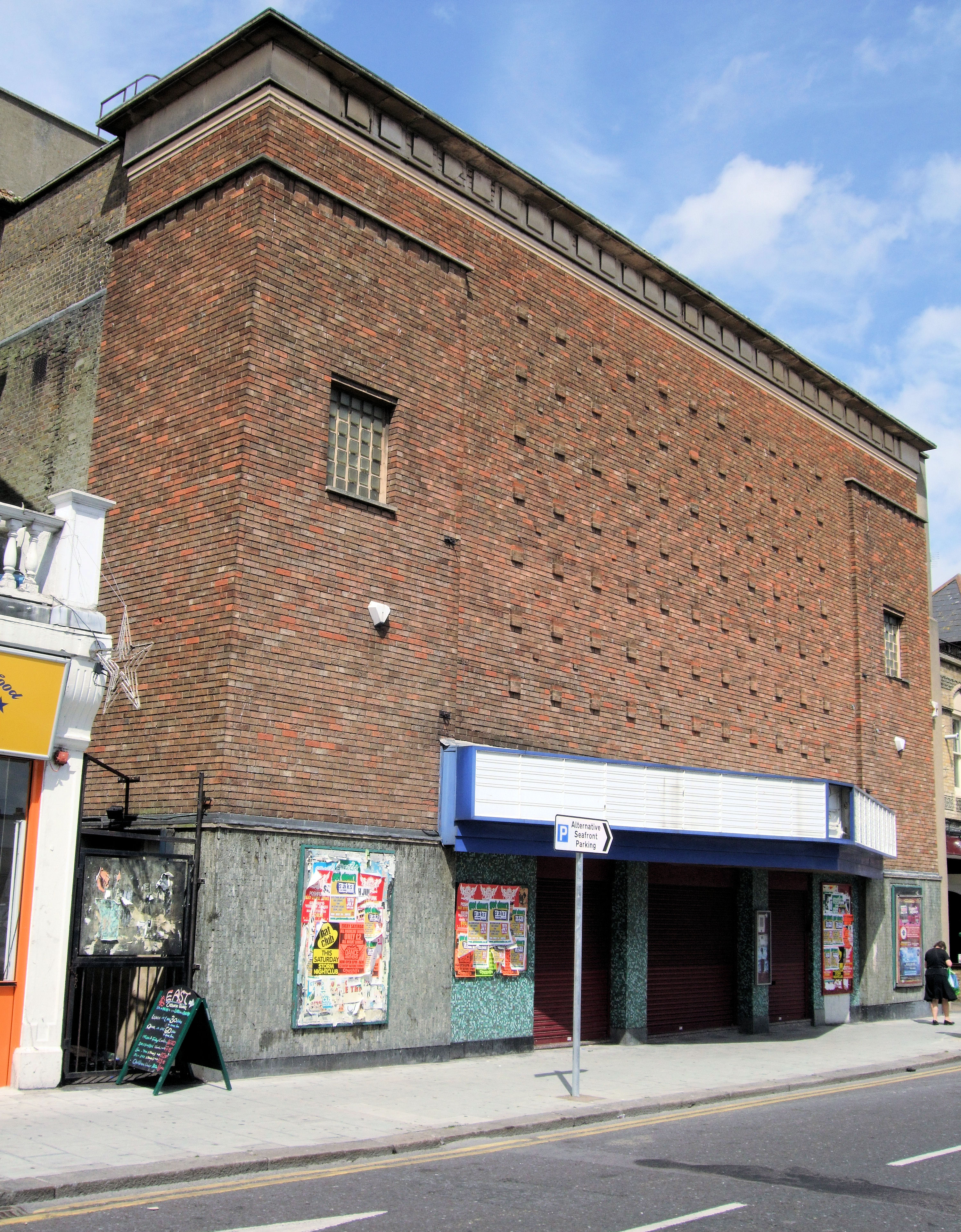 New Empire Theatre, Alexandra Street, Southend-On-Sea.